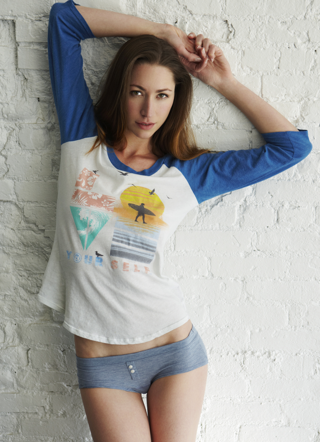 Tara Stiles press photo